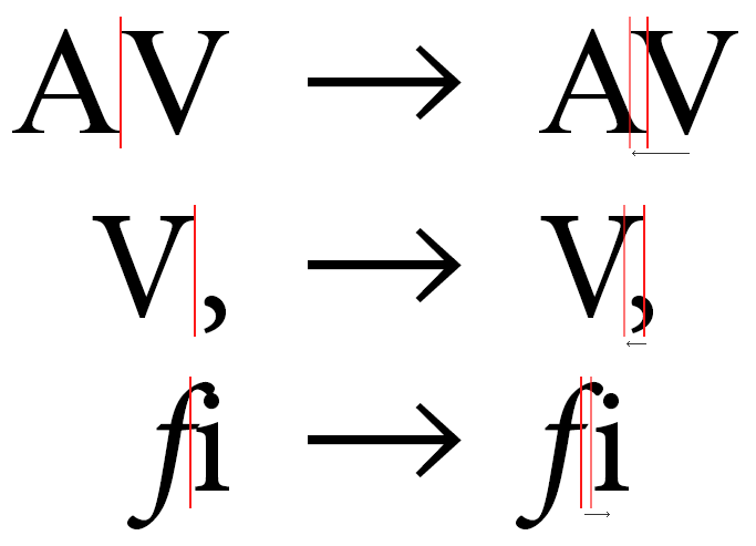 Unkerned and kerned character pairs.